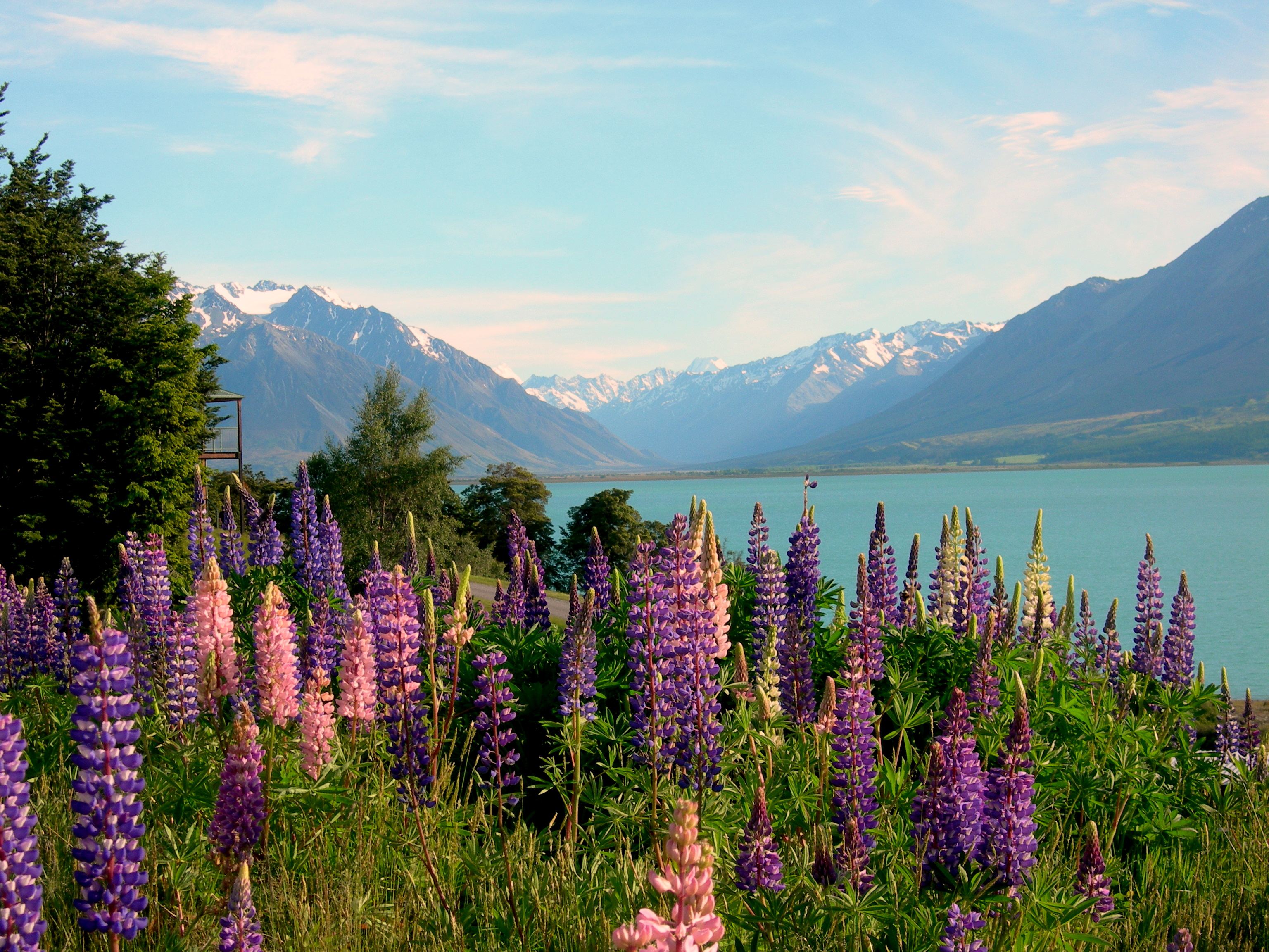 Lupin field in Ohau Lodge, New Zealand